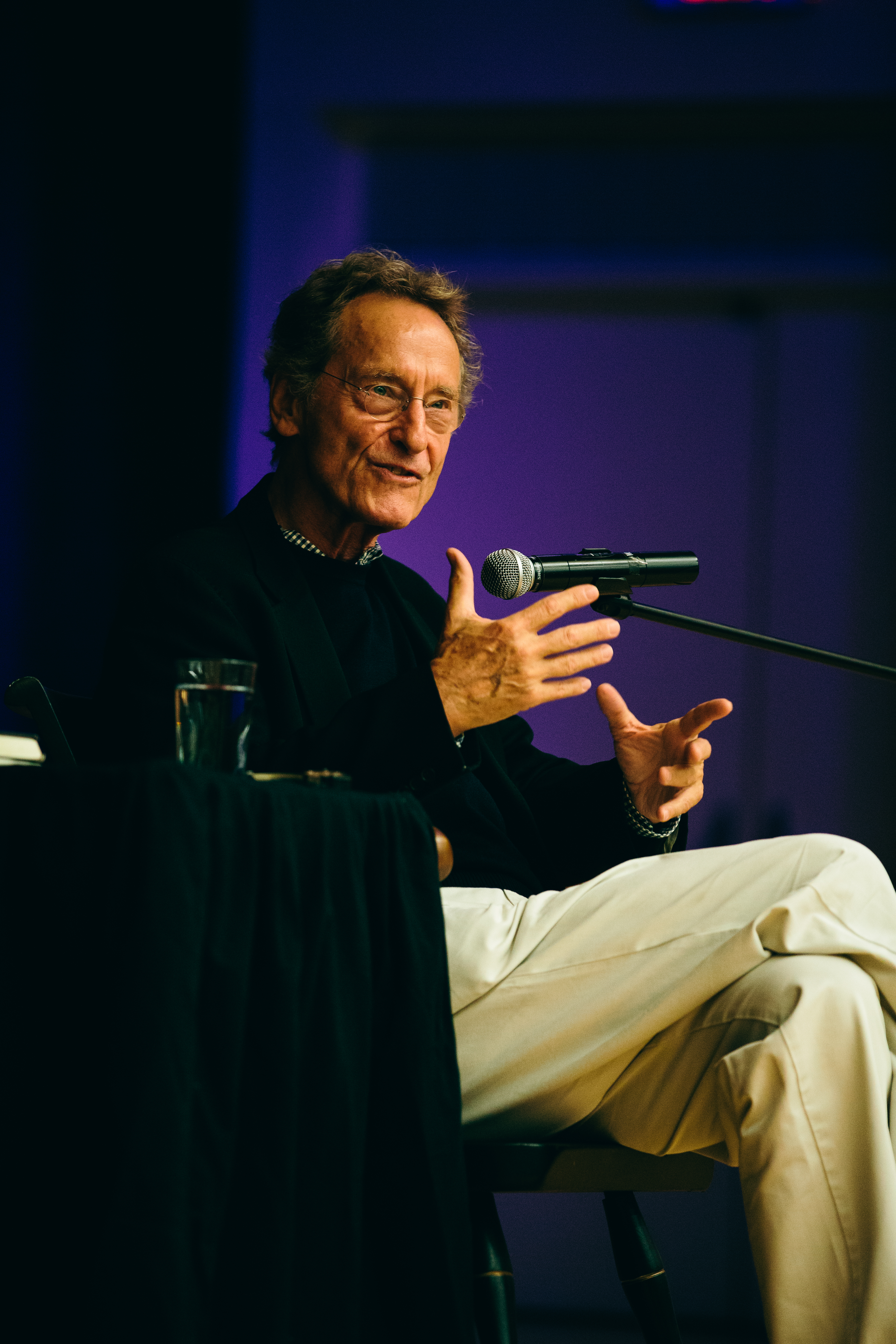 Bernhard Schlink, during a discussion at Bowdoin College, in Brunswick (Maine, United States), on 16 October 2018.